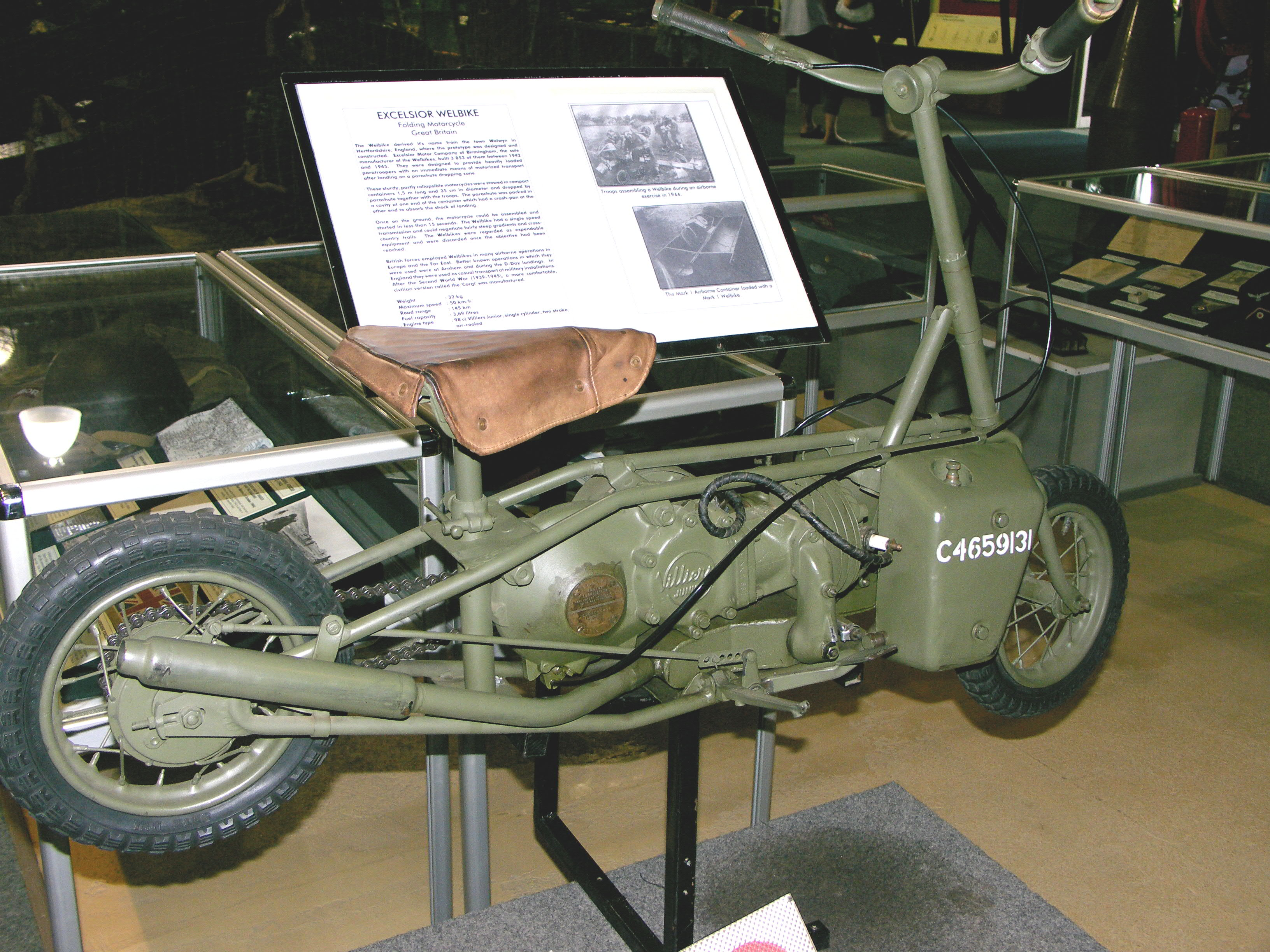 Excelsior Welbike (WD Number C4659131) at the Military Museum, Johannesburg